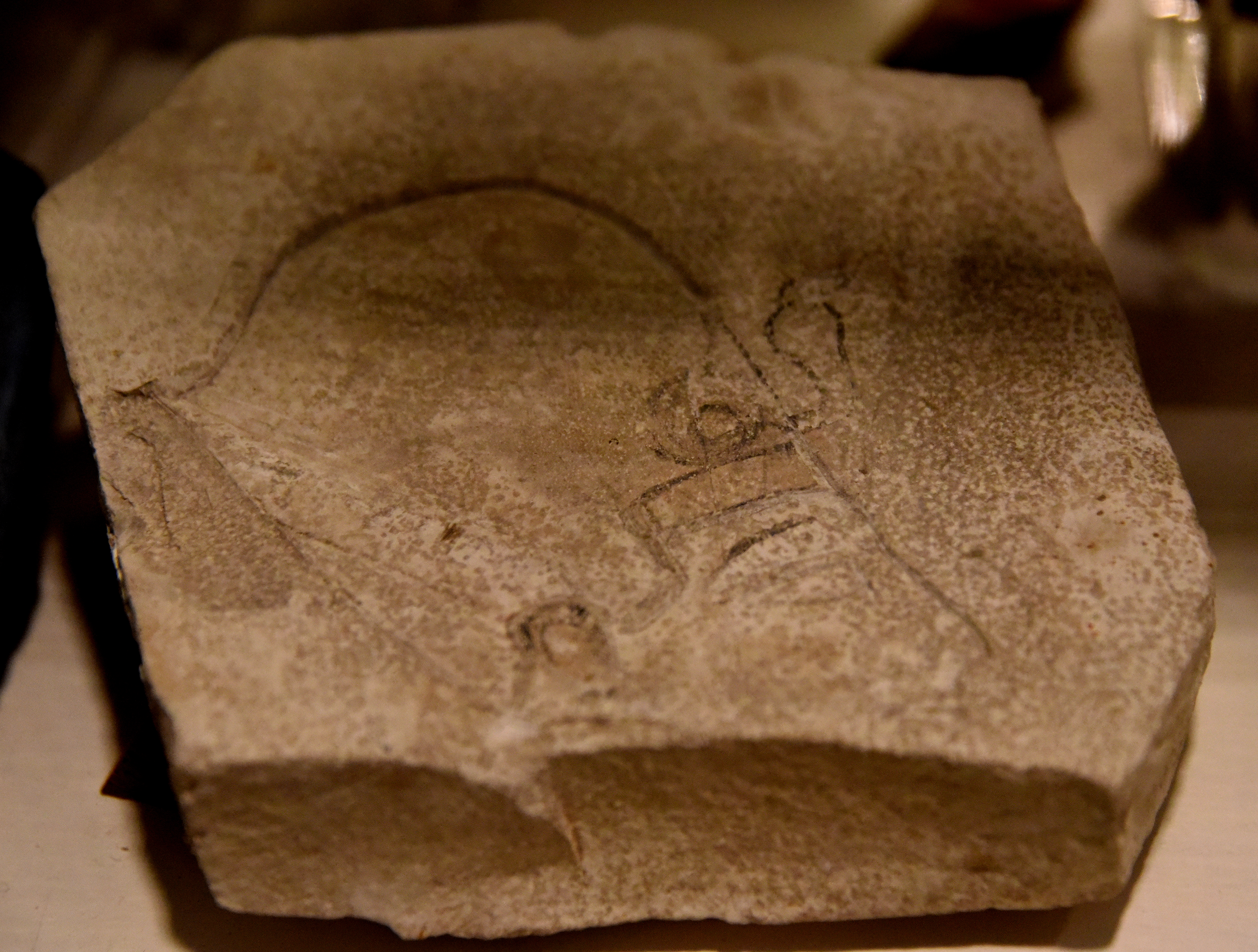 Limestone trial piece showing a king's head, who wears the blue crown. The original ink of the uraeus and ear is still seen. 18th Dynasty. From the Temple of Amenhotep II at Thebes, Egypt. The Petrie Museum of Egyptian Archaeology, London. With thanks to the Petrie Museum of Egyptian Archaeology, UCL.